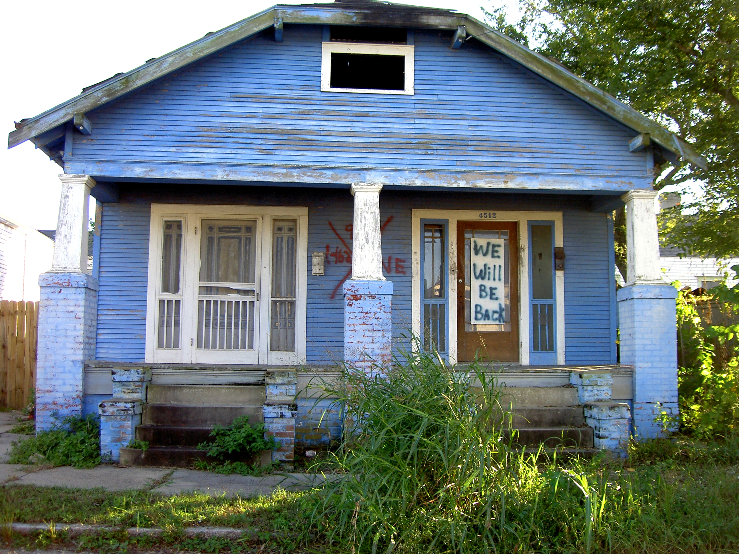 New Orleans: "We will be back." Inscription on house on N. Robertson Street, Upper 9th Ward, neighborhood damaged by flooding from the failure of the Federal levee system during Hurricane Katrina in 2005.